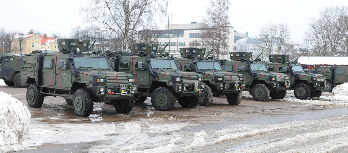 Nordic Battle Group